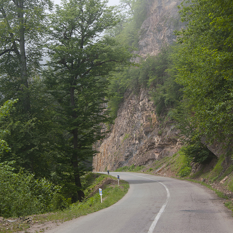 Road to Janat Rudbar, Mazandaran province, Iran